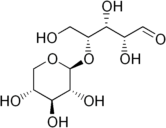 chemical structure of xylobiose